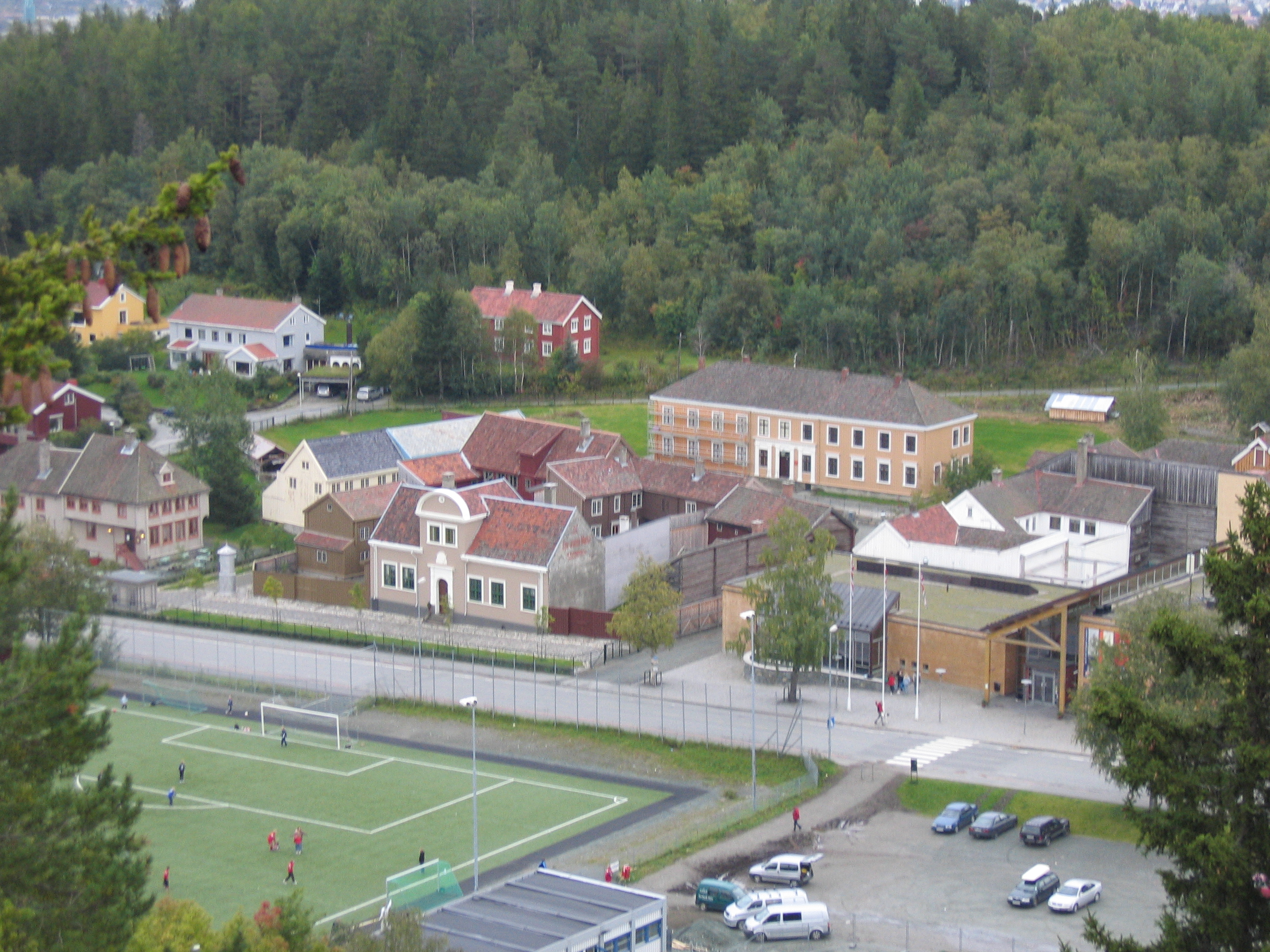 The Sverresborg folk museum in Trondheim, Norway.